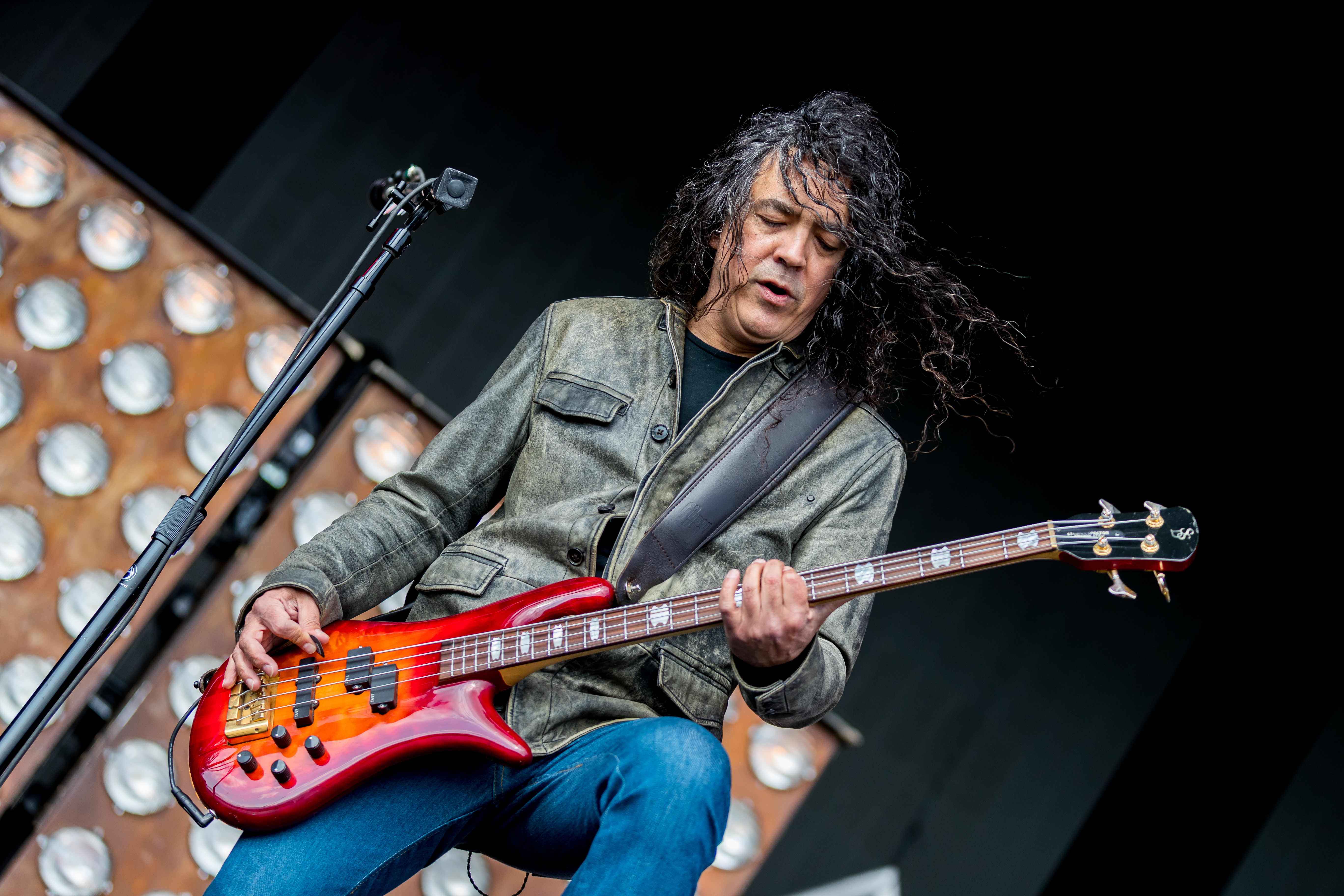 Alice in Chains during Rock am Ring ( at Nürburgring, Rheinland-Pfalz, Germany on 2019-06-07, Photo: Sven Mandel Promotion by Live Nation (